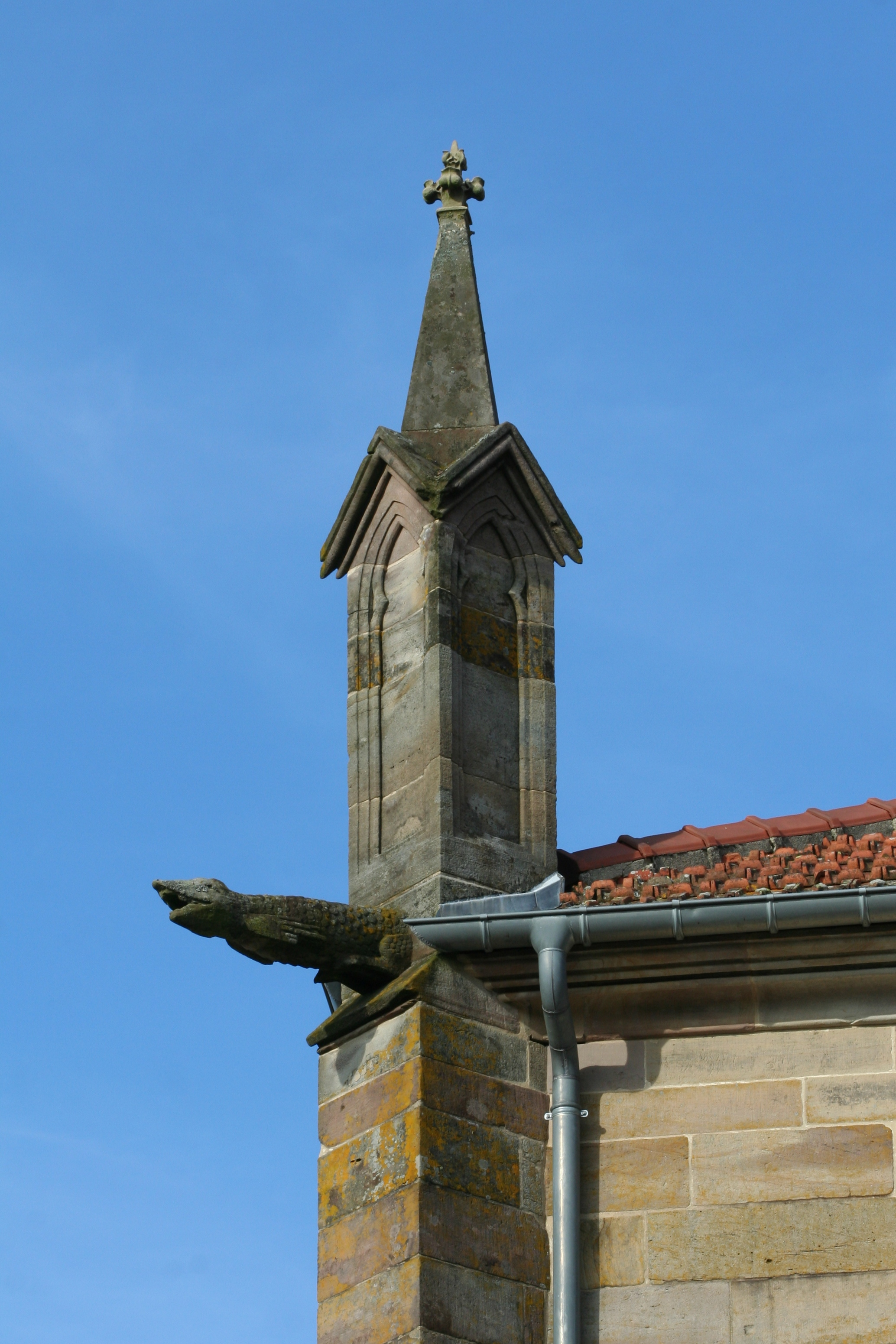 Pinnacle, Gargoyle crocodile-shaped and drainpipe of the church of St. Libaire Padoux (Vosges)